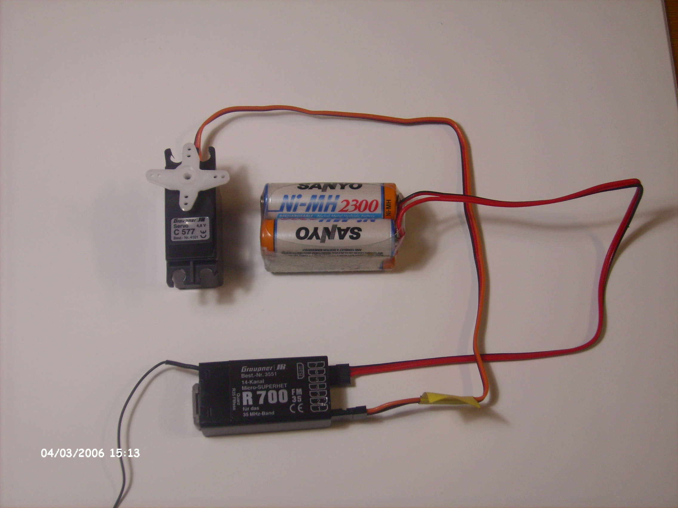 Remote control receiver, servo and battery of a remote-controlled model